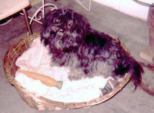 Pekeapoo Слика:Pekeapoo.jpeg